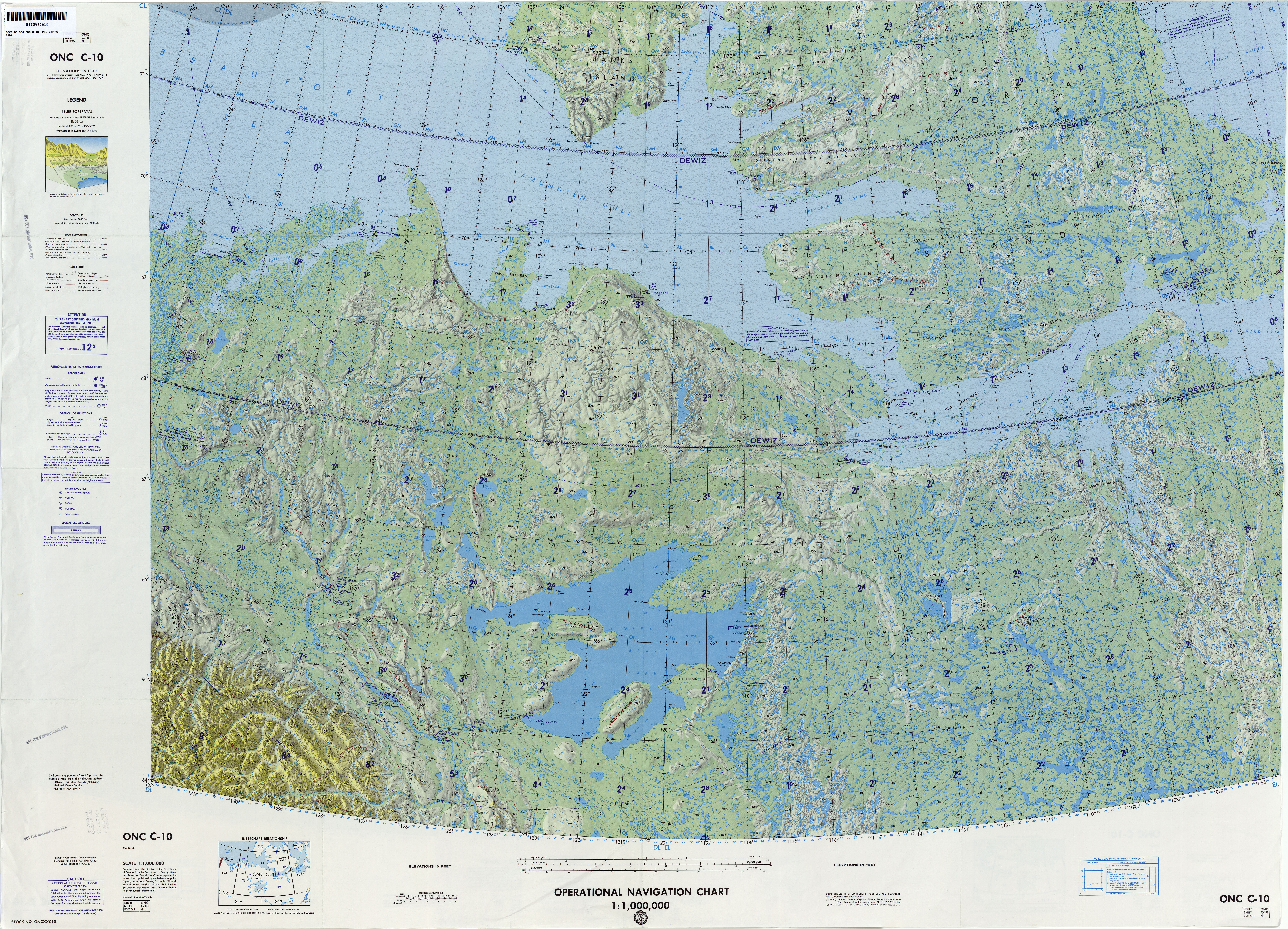 1:1,000,000 scale Operational Navigation Chart, Sheet C-10, 4th edition. Covers Canada. Lambert Conformal Conic Projection. Standard Parallels 65 20N and 70 40N. Center longitude 125W.